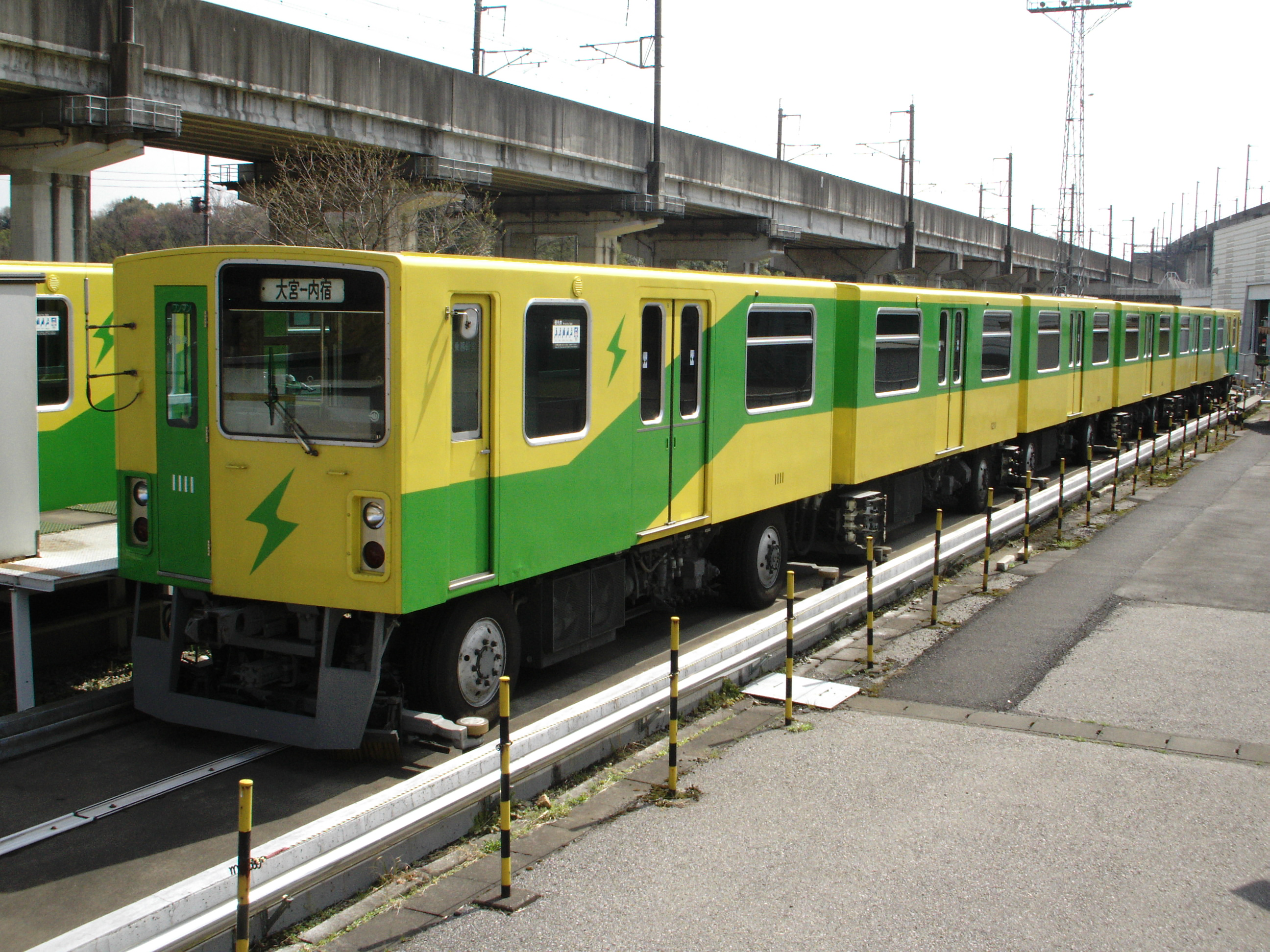 Saitama New Urban Transit "New Shuttle" 1010 series EMU set 11 at Maruyama Depot